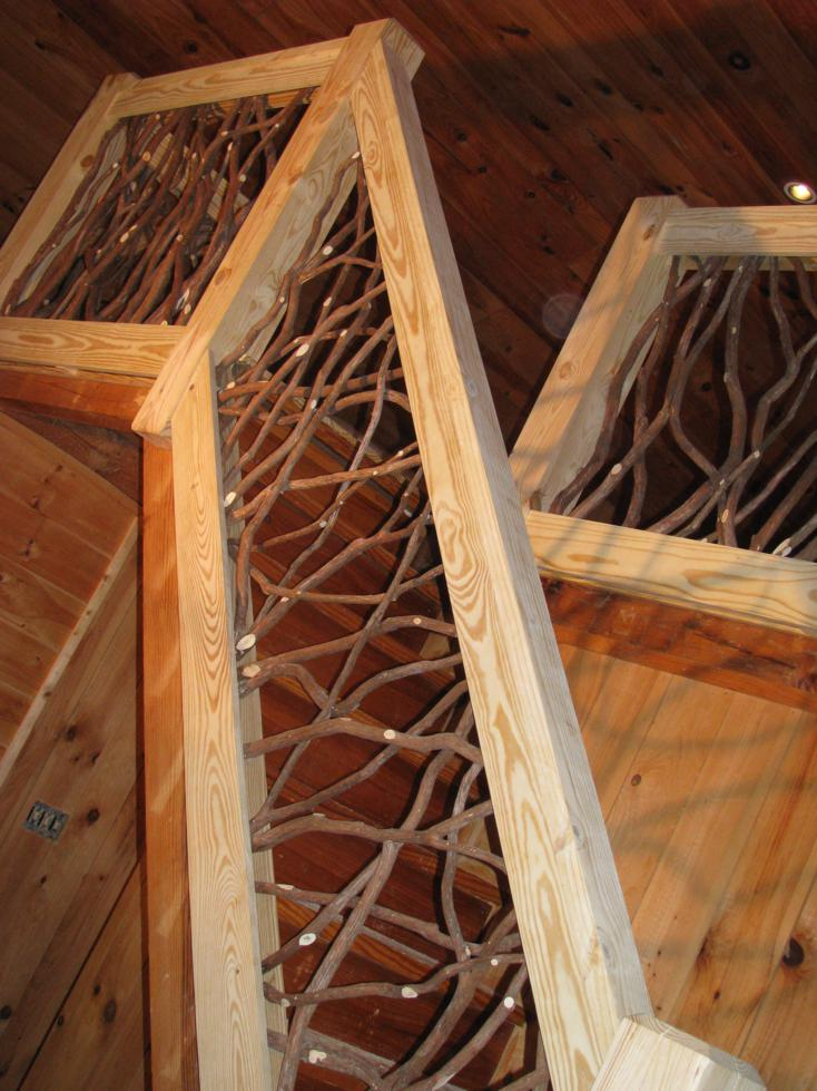 Stair railing made by Mountain Laurel Handrail with yellow pine lumber.